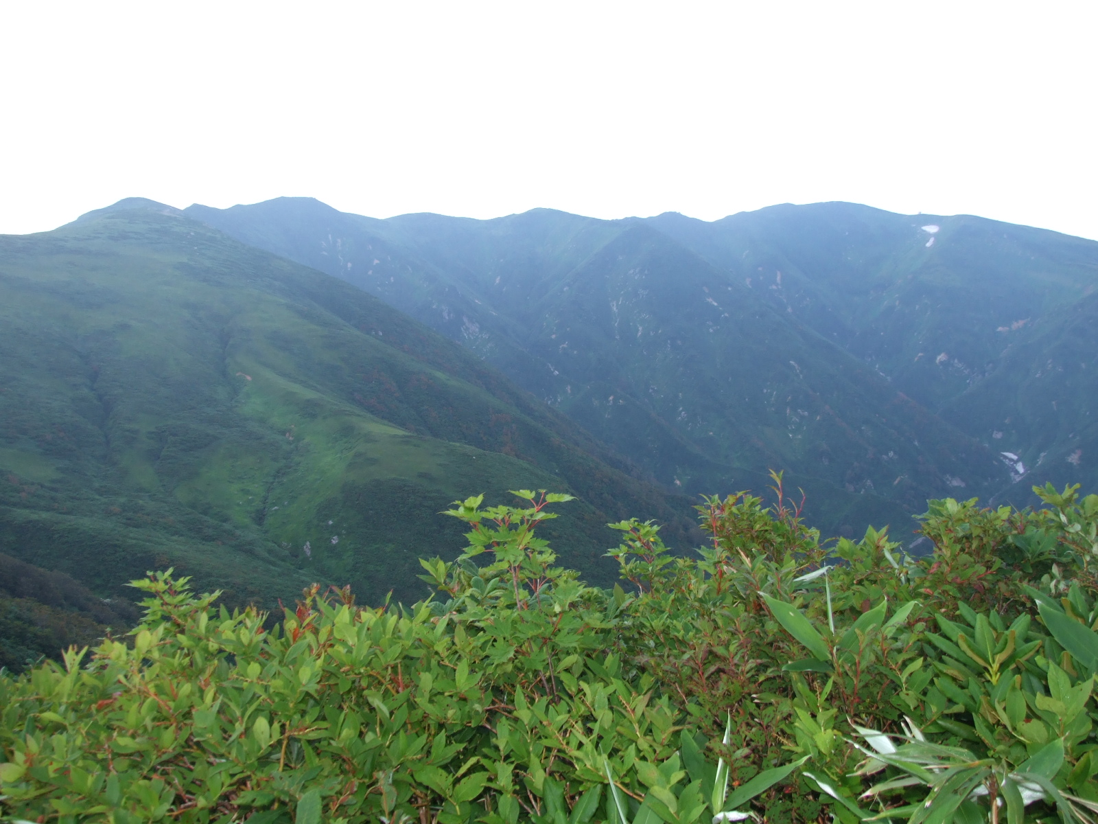 Mount Ito (Ito-dake) and Mount Otsubomine seen from the North.